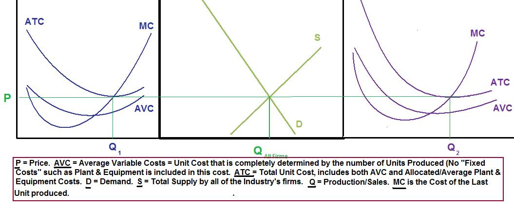 Competitive firms are forced to be "Price Takers" of the "Equilibrium Price" set within the Industry's Market by Total Consumer Demand and Supply provided by all firms in the Industry.